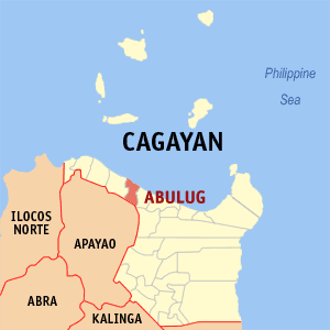 Map of Cagayan showing the location of Abulug